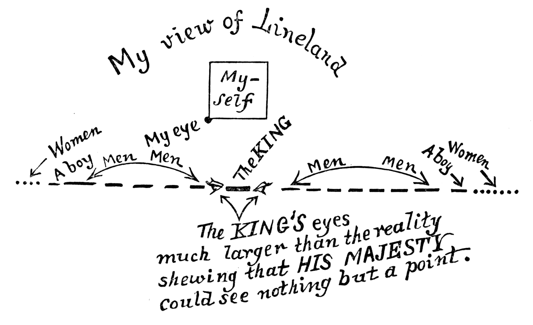 illustration from page 53 of Flatland